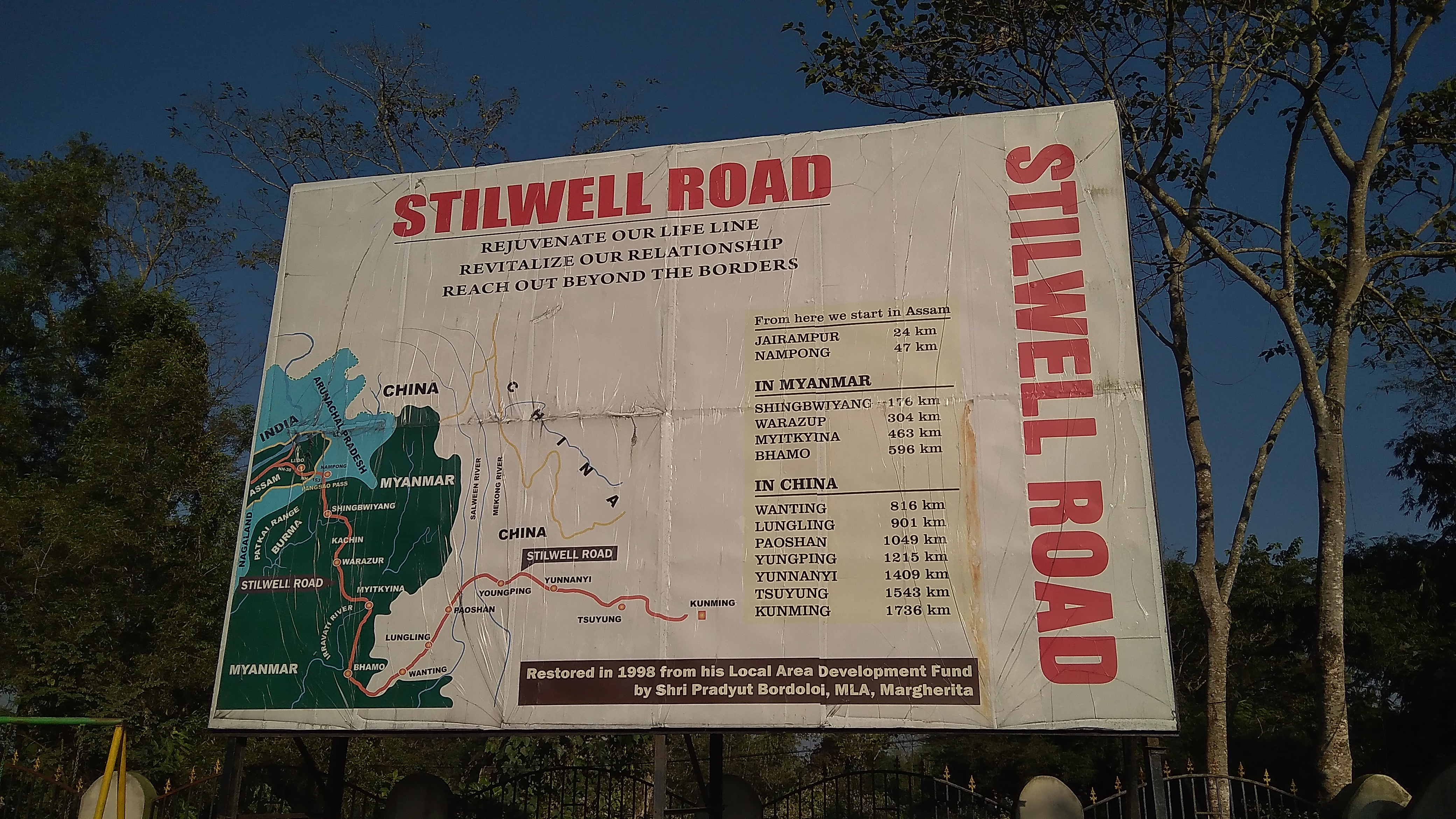 Present day signpost at Ledo